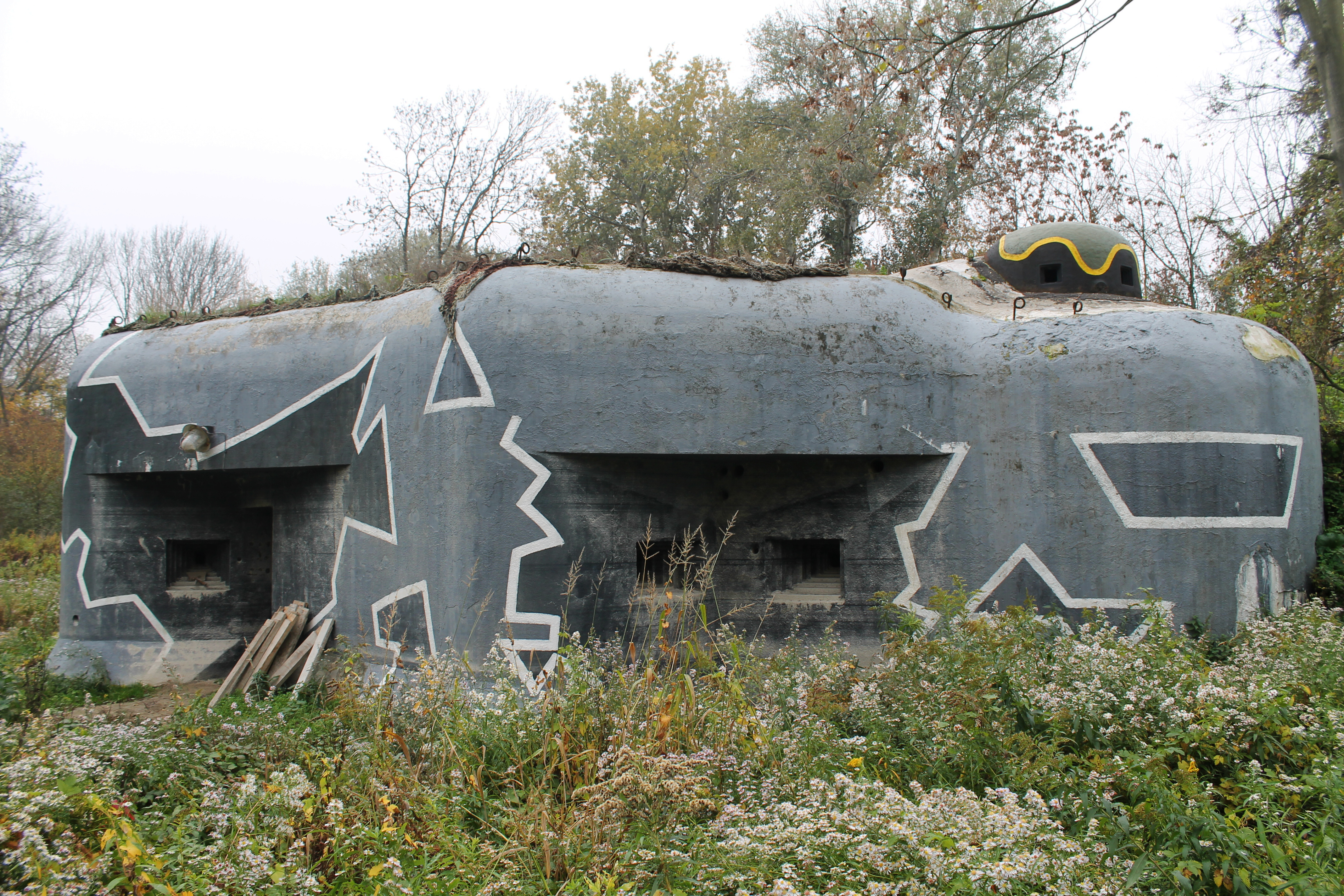 B-S 2 Mulda infantry casemate, Bratislava, Slovakia - Google Maps - Google Earth